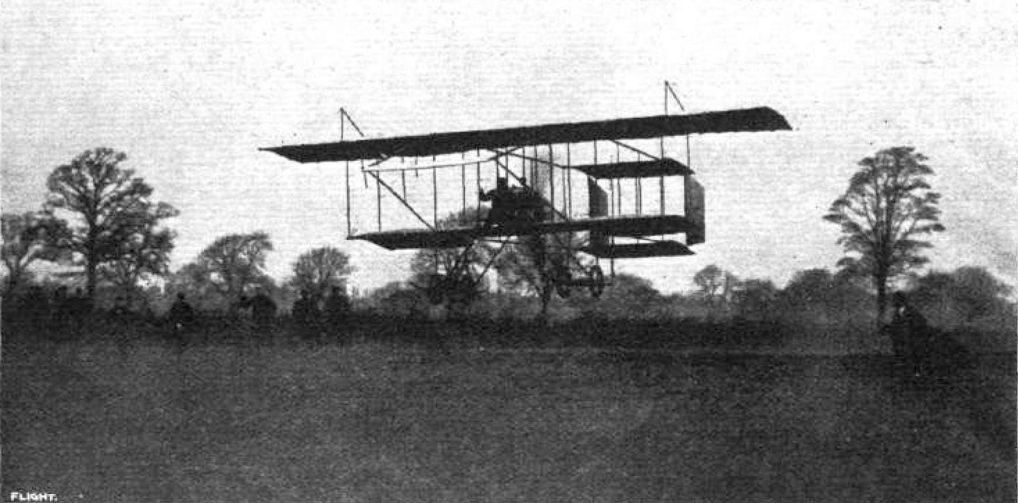 Louis Paulhan landing his Farman III biplane at Didsbury, Manchester, winning the Daily Mail 1910 London to Manchester air race.